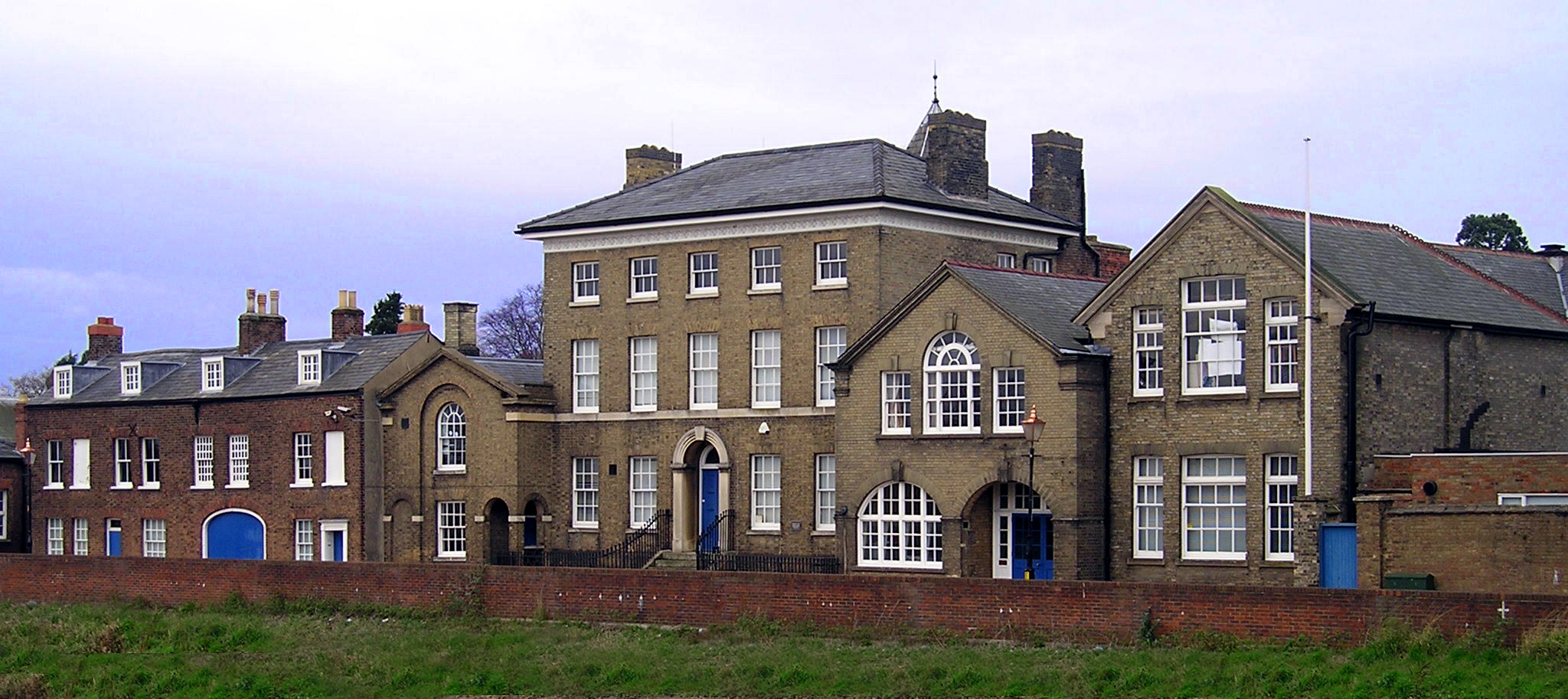 Wisbech Grammar School seen from across the Nene, taken c.2004.